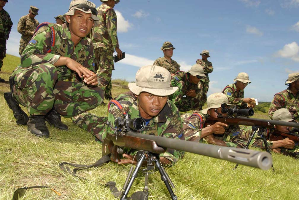 CAMP KARENTEKOK, Republic of Indonesia â€”Indonesian Marine Pvt.â€™s Saiful and Usuludin look to see if the shot Usuludin fired hit the target. U.S. Marines with Scout Sniper Platoon, Battalion Landing Team 2, 4th Marine Regiment, 31st Marine Expeditionary Unit, continued their training with Indonesia Marines from 1st and 2nd Reconnaissance Battalions by conducting a sniper rifle shoot here March 11. Saiful and Usuludin are both snipers with 1st Reconnaissance Battalion. (Official U.S. Marine Corps photo by 31st MEU Combat Correspondent Lance Cpl. Tyler J. Hlavac)(Released)